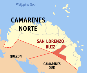 Map of Camarines Norte showing the location of San Lorenzo Ruiz